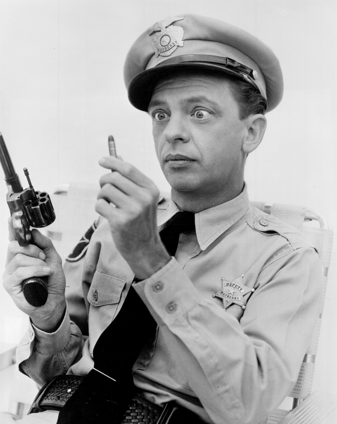 Photo of Don Knotts as Barney Fife from The Andy Griffith Show. Barney is seen here loading his pistol with the only bullet he was allowed to have. It was kept in his uniform short pocket in case it was needed. Whenever Barney loaded his gun, it would either go off while holstered, fire into the ceiling, etc.